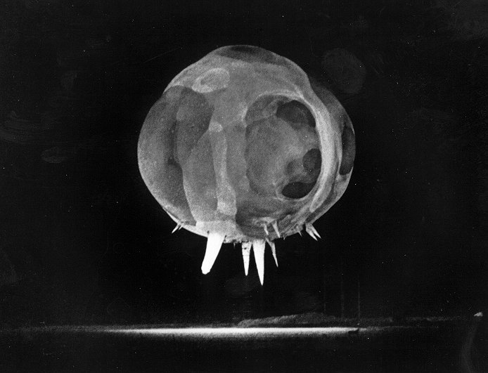 Operation Plumbbob. Boltzmann test. Early stages of the fireball.